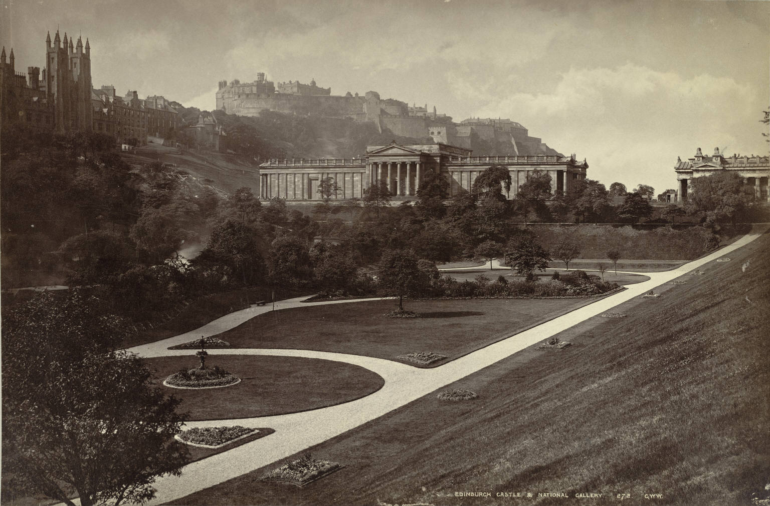 Collection: A. D. White Architectural Photographs, Cornell University Library Accession Number: 15/5/3090.01246 Title: Edinburgh Castle and National Gallery Architect of Museums: Sir William Playfair (British, 1789-1857) Photographer: George Washington Wilson (Scottish, 1823-1893) Castle date: ca. 1500-ca. 1599 National Gallery date: 1850-1859 Photograph date: ca. 1865-ca. 1885 Location: Europe: United Kingdom; Edinburgh Materials: albumen print Image: 7 1/2 x 11 1/2 in.; 19.05 x 29.21 cm Provenance: Gift of Andrew Dickson White Persistent URI: There are no known copyright restrictions on this image. The digital file is owned by the Cornell University Library which is making it freely available with the request that, when possible, the Library be credited as its source. We had some help with the geocoding from Web Services by Yahoo! This image is from the Cornell University Library's The Commons Flickr stream. The Library has determined that there are no known copyright restrictions. This image was taken from Flickr's The Commons. The uploading organization may have various reasons for determining that no known copyright restrictions exist, such as: The copyright is in the public domain because it has expired; The copyright was injected into the public domain for other reasons, such as failure to adhere to required formalities or conditions; The institution owns the copyright but is not interested in exercising control; or The institution has legal rights sufficient to authorize others to use the work without restrictions. More information can be found at Please add additional copyright tags to this image if more specific information about copyright status can be determined. See Commons:Licensing for more information.No known copyright restrictionsNo restrictions